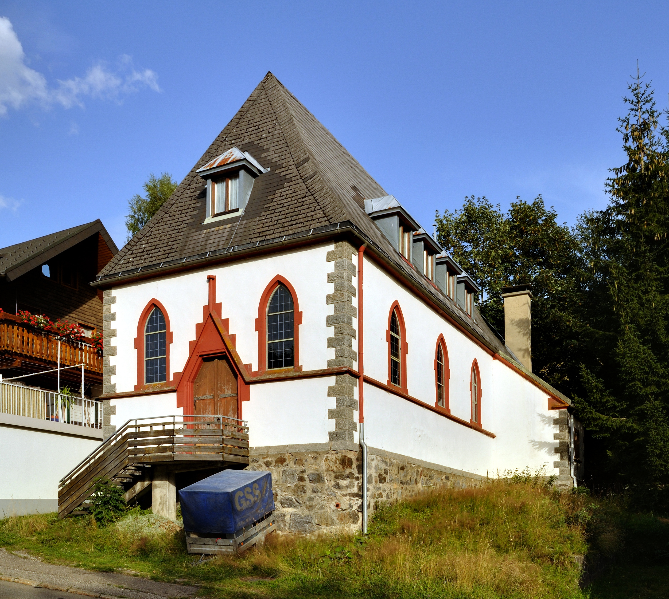 Muggenbrunn: Protestant Church (Saint Cornelius)